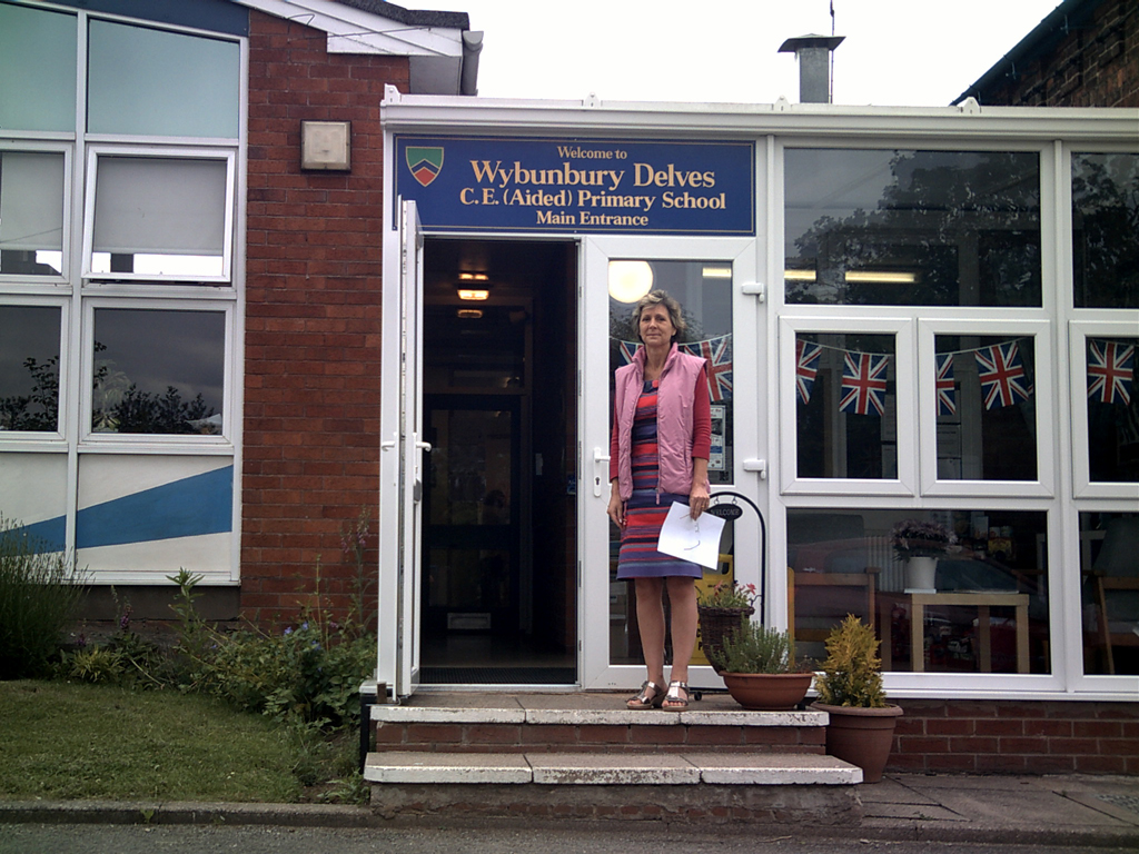 Entrance of Wybunbury Delves School with Head Teacher Mrs. Casserley. Photograph taken by Josephine Warburton of Year 3,age 7.